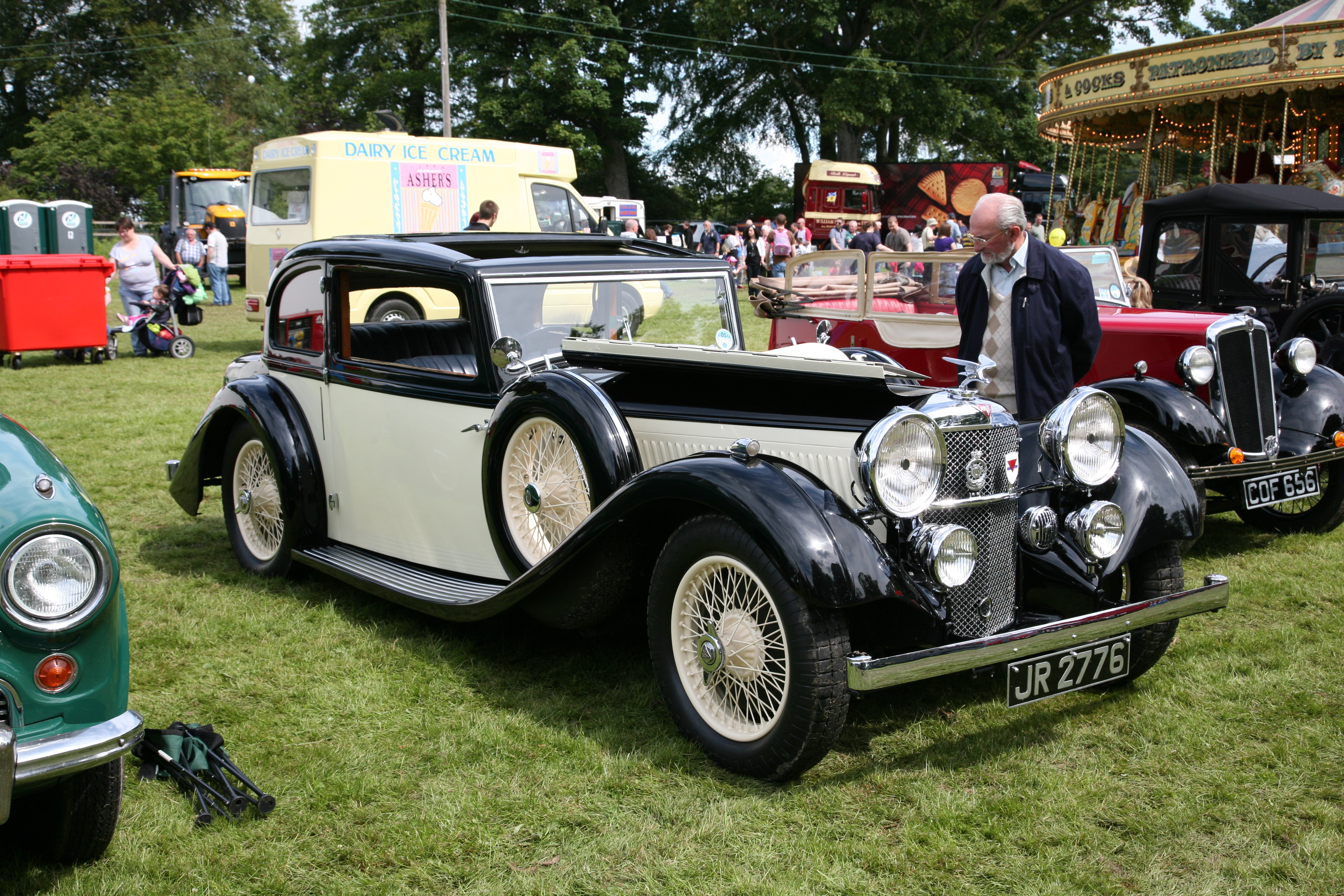 Alvis Speed 20 Vanden Plas fixed head coupé 2762cc 20hp 1934(DVLA) first registered 11 January 1935, 2762cc